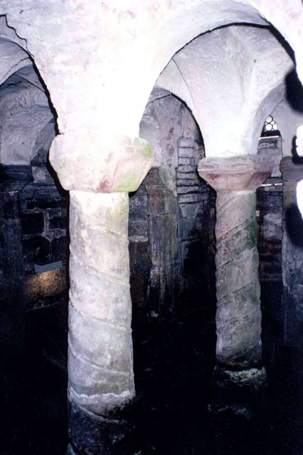 Church of England parish church of St Wystan, Repton, Derbyshire: 9th-century burial crypt for the Mercian royal family